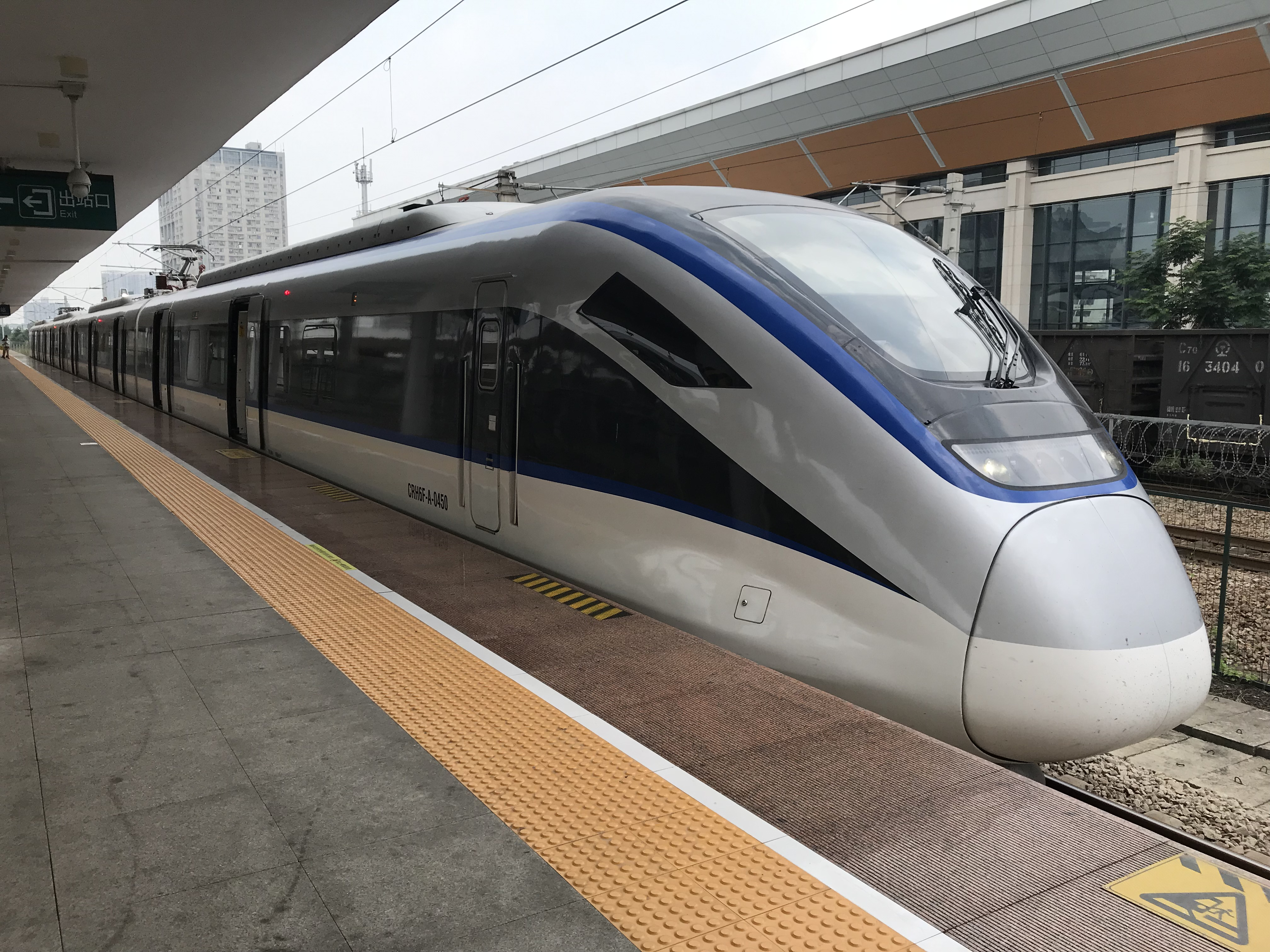 201906 CRH6F-A-0450 at Changsha Station